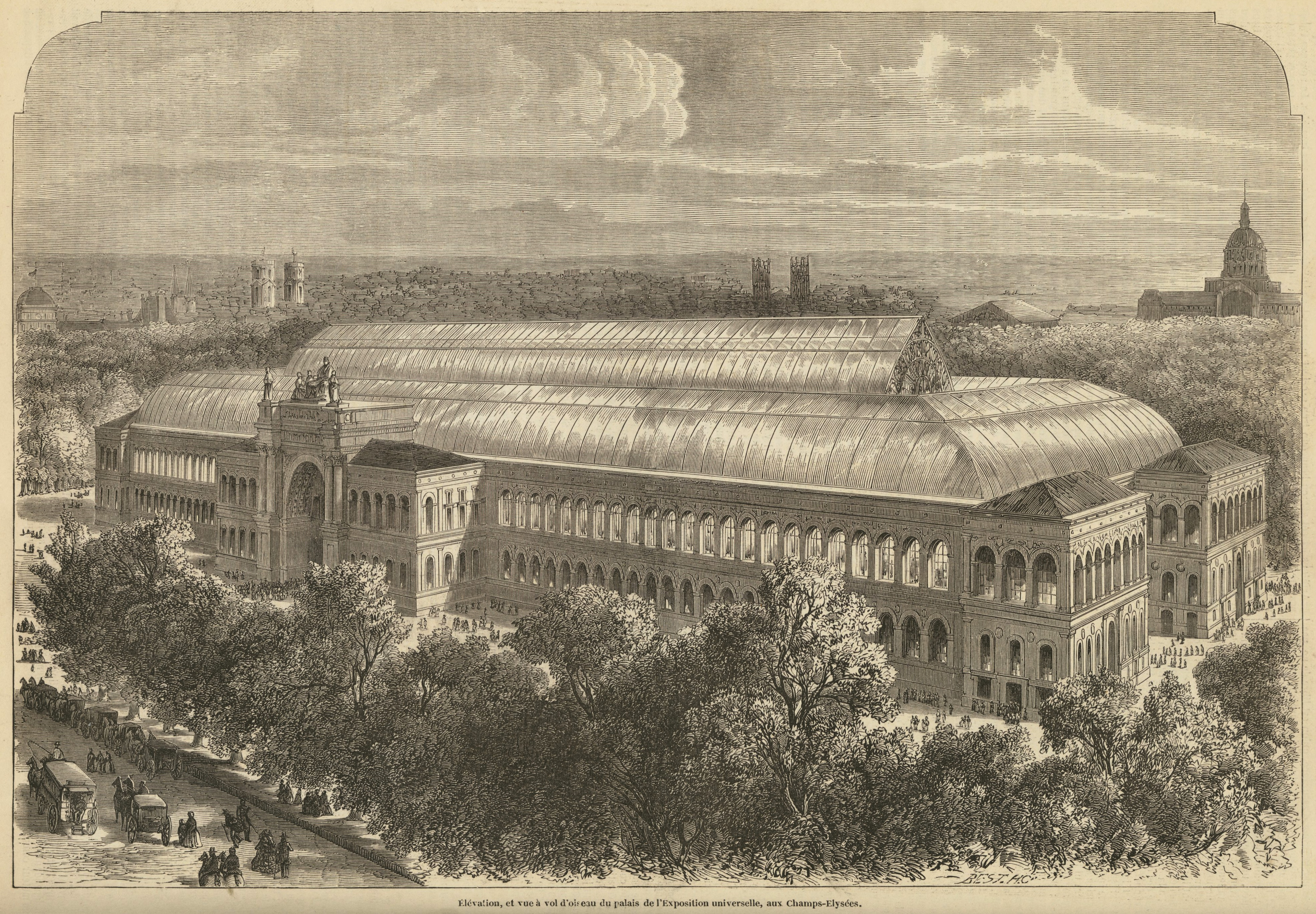 The Palais de l'industrie was built by the architects Jean-Marie-Victor Viel and Alexandre Barrault, for the Great exhibit of 1855. It was much criticized at the time of its construction, because of its massive size and proportions. Napoleon III had it built to surpass the Crystal Palace of London's Great Exhibit. The palais was eventually destroyed in 1897, to allow for the erection of the Grand palais, which housed part of the Great exhibit in 1900.